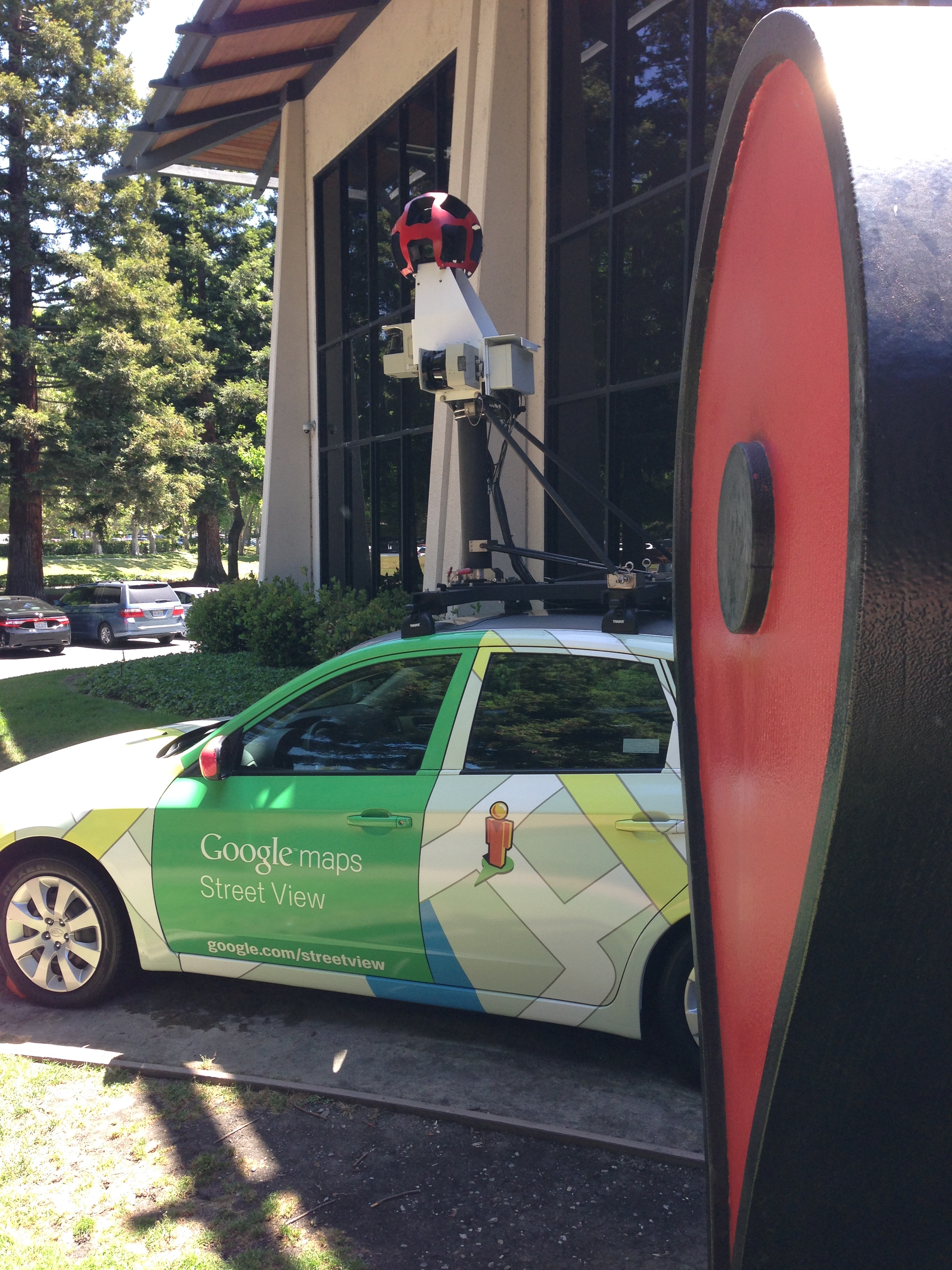 Street View camera car and giant map pushpin. Mountain View, California